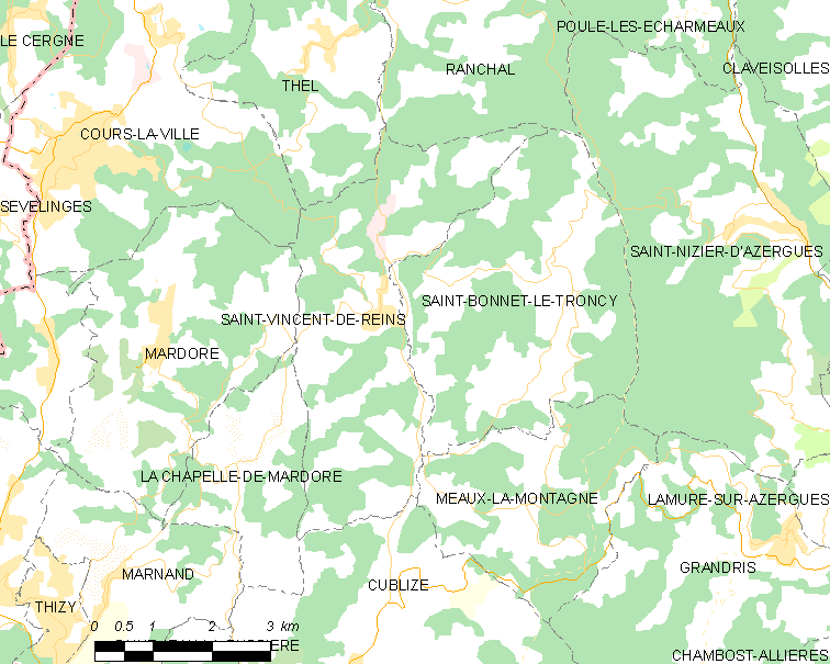 Map of French municipality